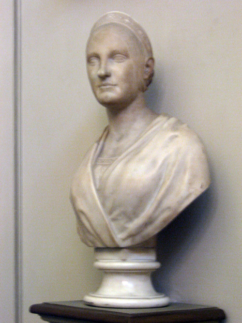 Maria Antonia of the Two Sicilies (1814-1898), Royal Princess of the Two Sicilies, Grand Duchess of Tuscany, consort of Leopold II of Habsburg-Lothringen, Grand Duke of Tuscany.